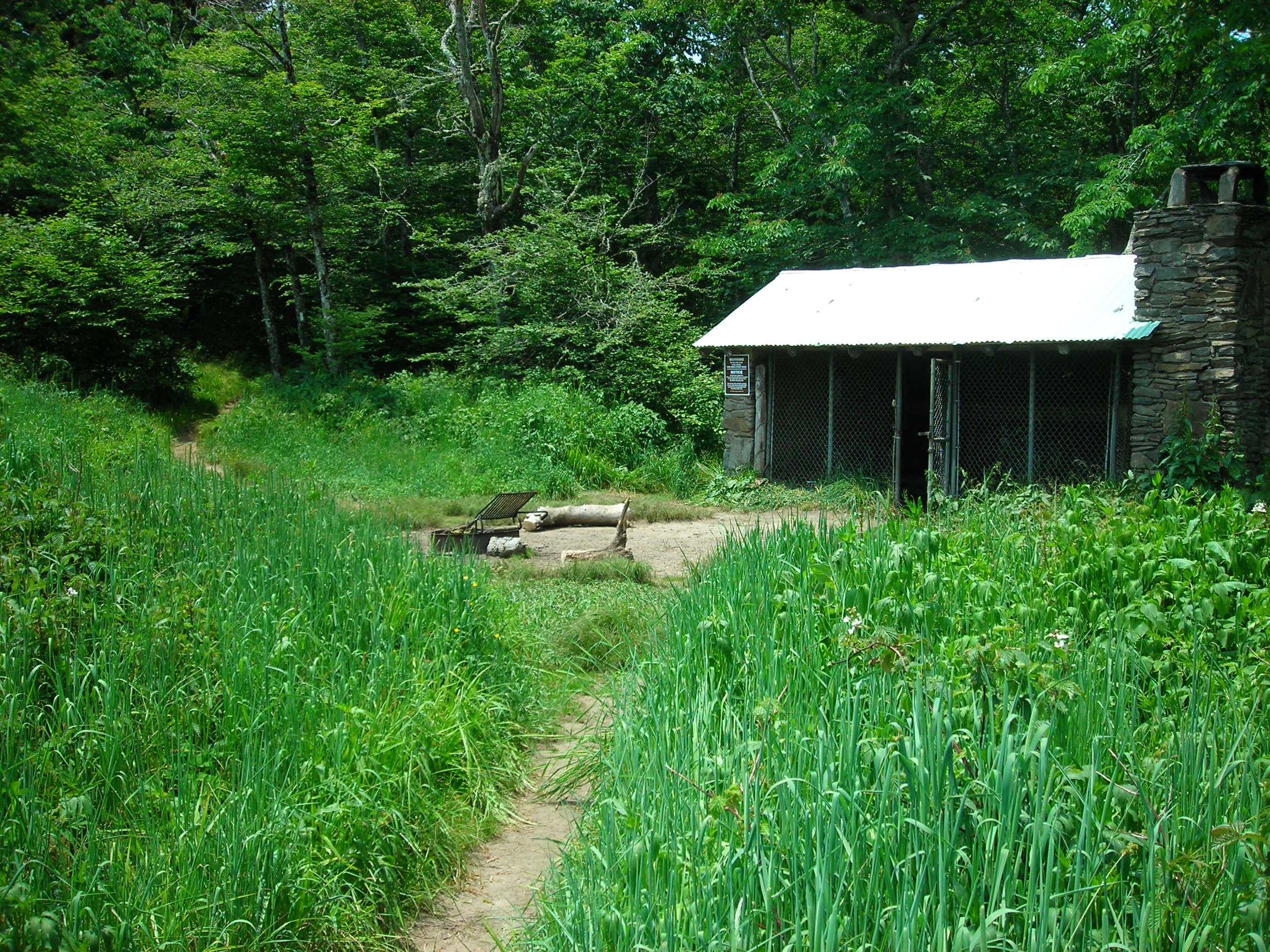 Double Springs Gap is located along the Appalachian Trail between Silers Bald and Clingmans Dome. The gap is home to an overnight-use shelter and the two springs that give the gap its name. Photo taken by myself, Scott Basford, on June 21, 2006.